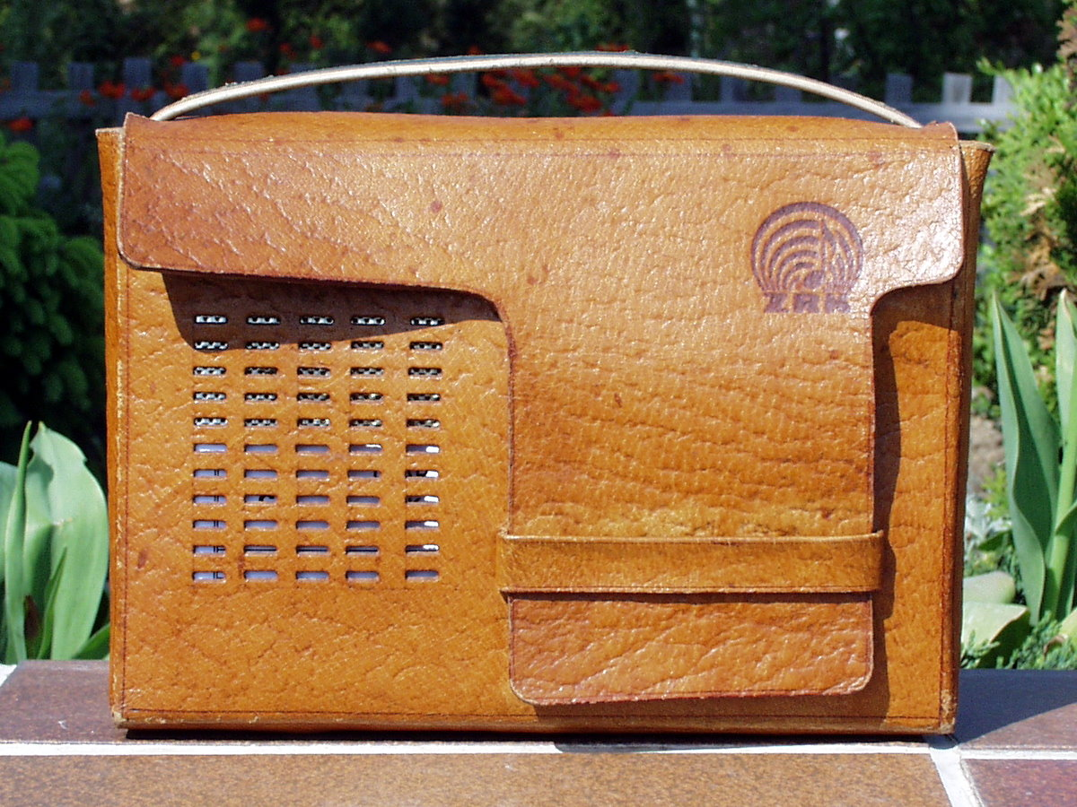 Radio "Czar", manufacturer: "ZRK" (Poland), 1961